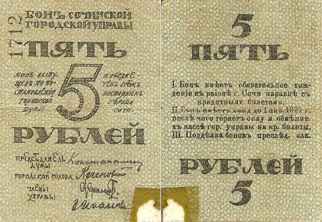 5 roubles bon of Sochi